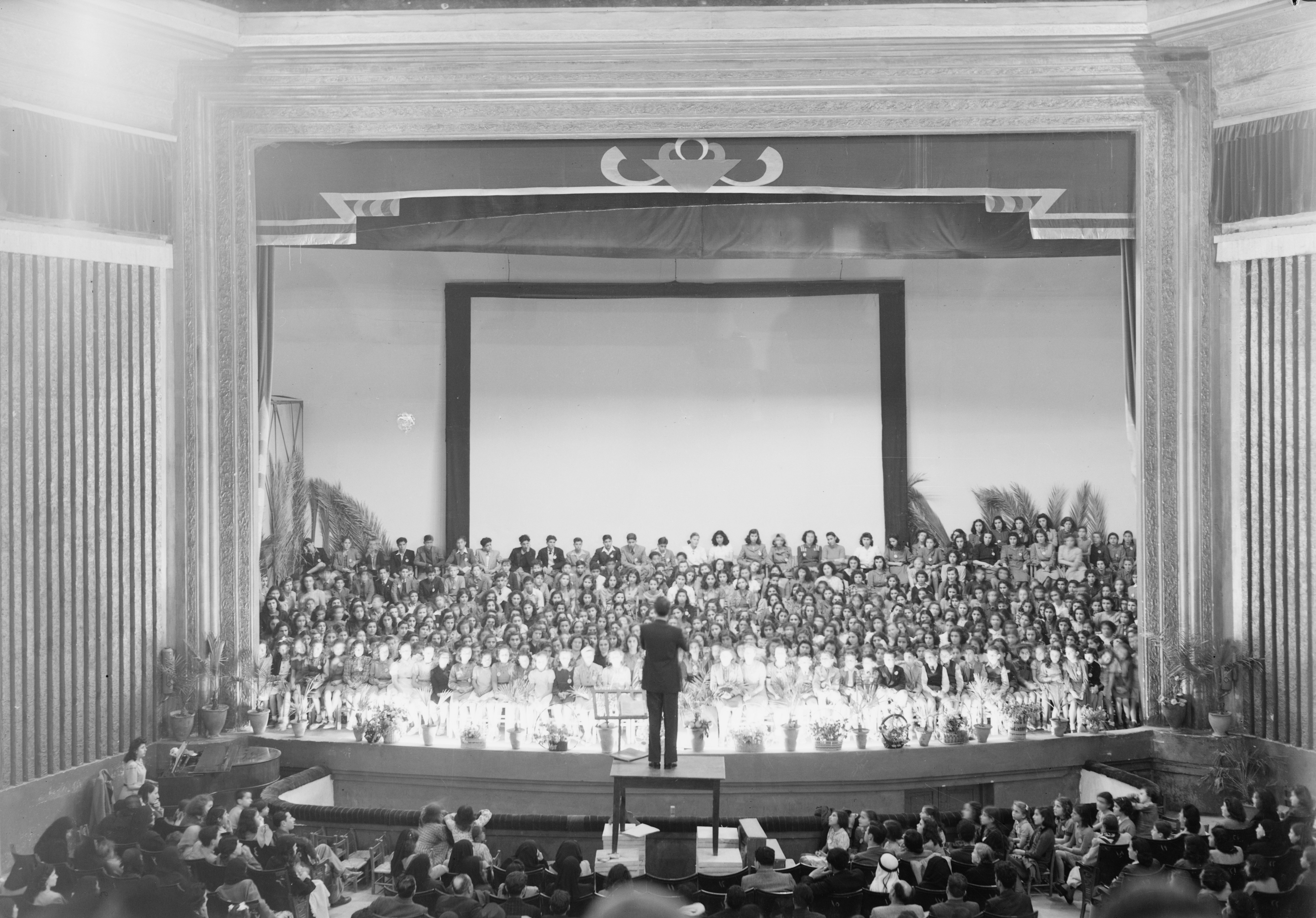 Large choir group in Alhambra Cinema , Jaffa, March 22, 1944 TITLE: Large choir group in Al Hambra, cinema, Jaffa, March 22, '44 CALL NUMBER: LC-M34- 12964[P&P] REPRODUCTION NUMBER: LC-DIG-matpc-14729 (digital file from original photo) RIGHTS INFORMATION: No known restrictions on publication. MEDIUM: 1 negative : safety film ; 5 x 7 in. CREATED/PUBLISHED: [19]44 Mar. 22. CREATOR: Matson Photo Service, photographer. NOTES: On negative: Duplicate. Gift; Episcopal Home; 1978. Title and date from: photographer's logbook: Matson Registers, v. 2, [1940-1946]. SUBJECTS: Israel--Tel Aviv. FORMAT: Safety film negatives. PART OF: G. Eric and Edith Matson Photograph Collection REPOSITORY: Library of Congress Prints and Photographs Division Washington, D.C. 20540 USA DIGITAL ID: (digital file from original photo) matpc 14729 CONTROL #: mpc2005009986/PP